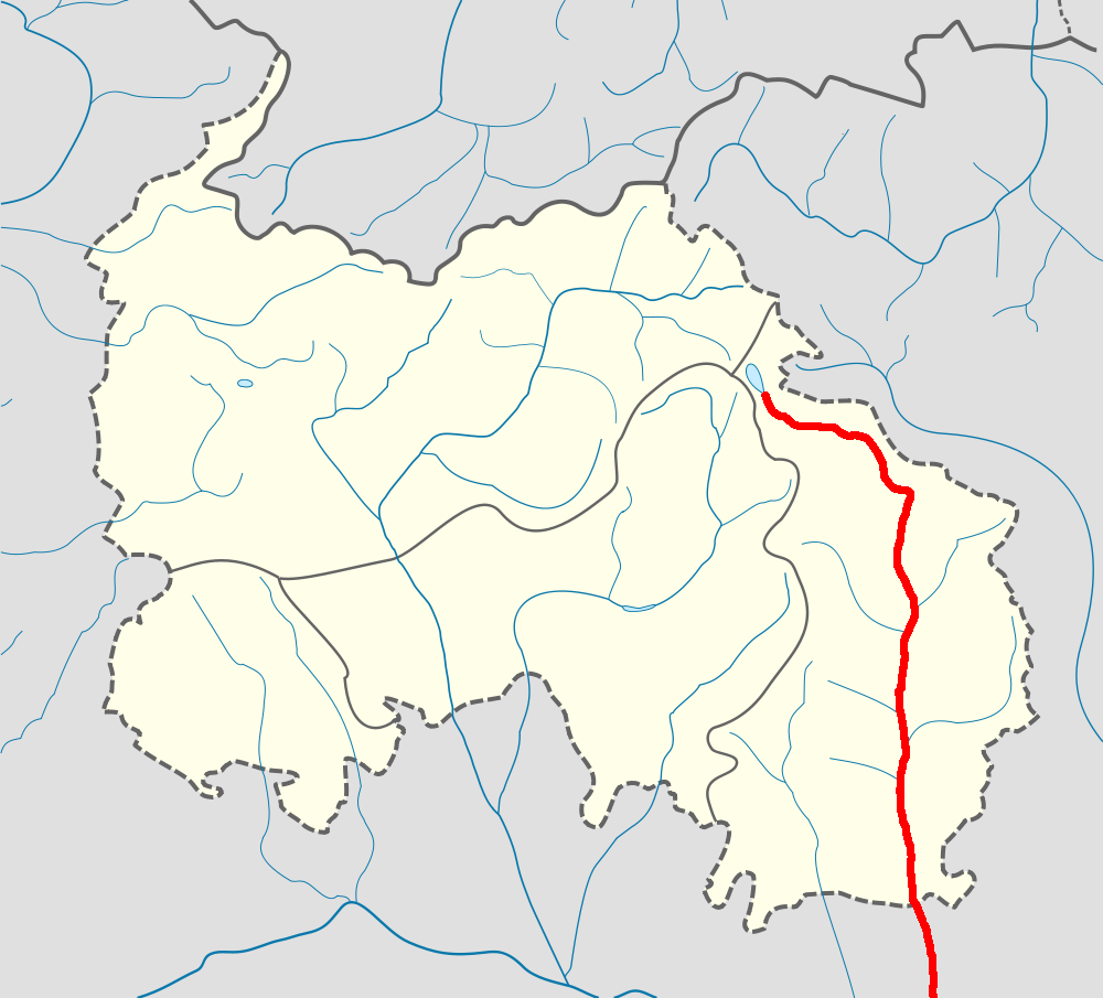 Ksani River (Chysandon)